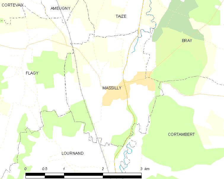 Map of French municipality